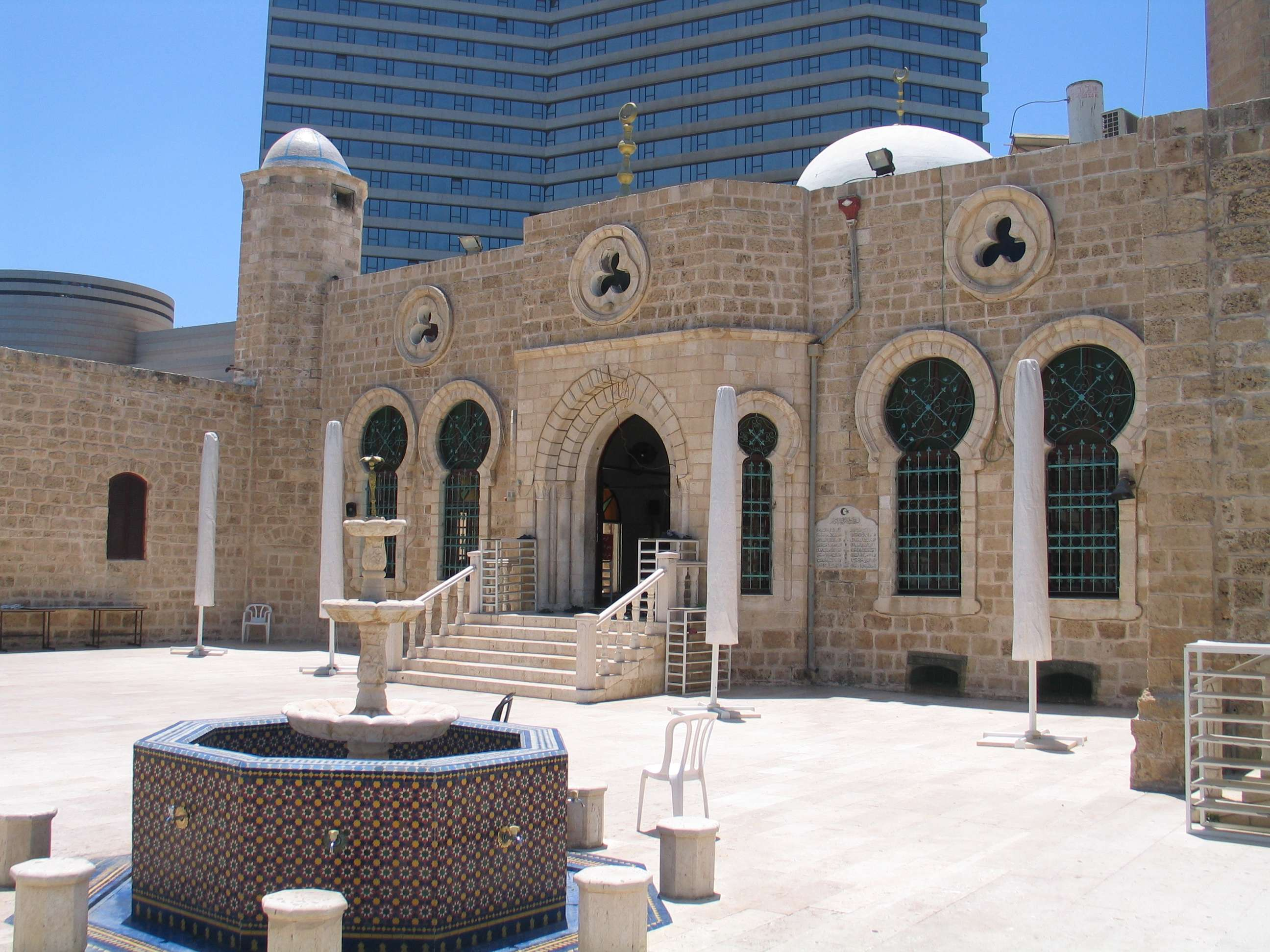 Hassan Bek mosque, Tel Aviv Yafo, Israel.